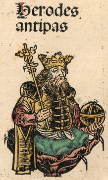 This is a part of a scan of an historical document: Title: Schedelsche Weltchronik or Nuremberg Chronicle